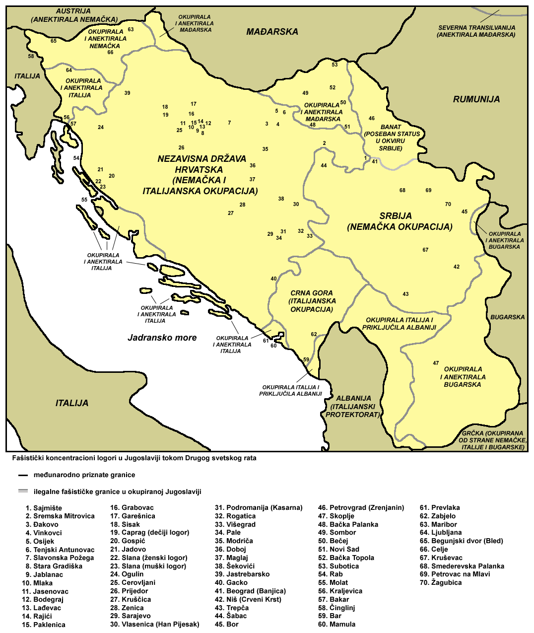 Fascist concentration camps in Yugoslavia in World War II - Serbian language version.